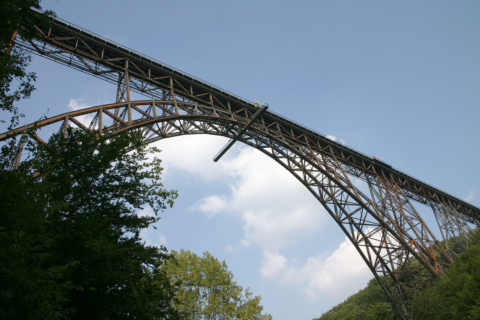 The Muengsten Bridge between the cities Solingen and Remscheid, Germany